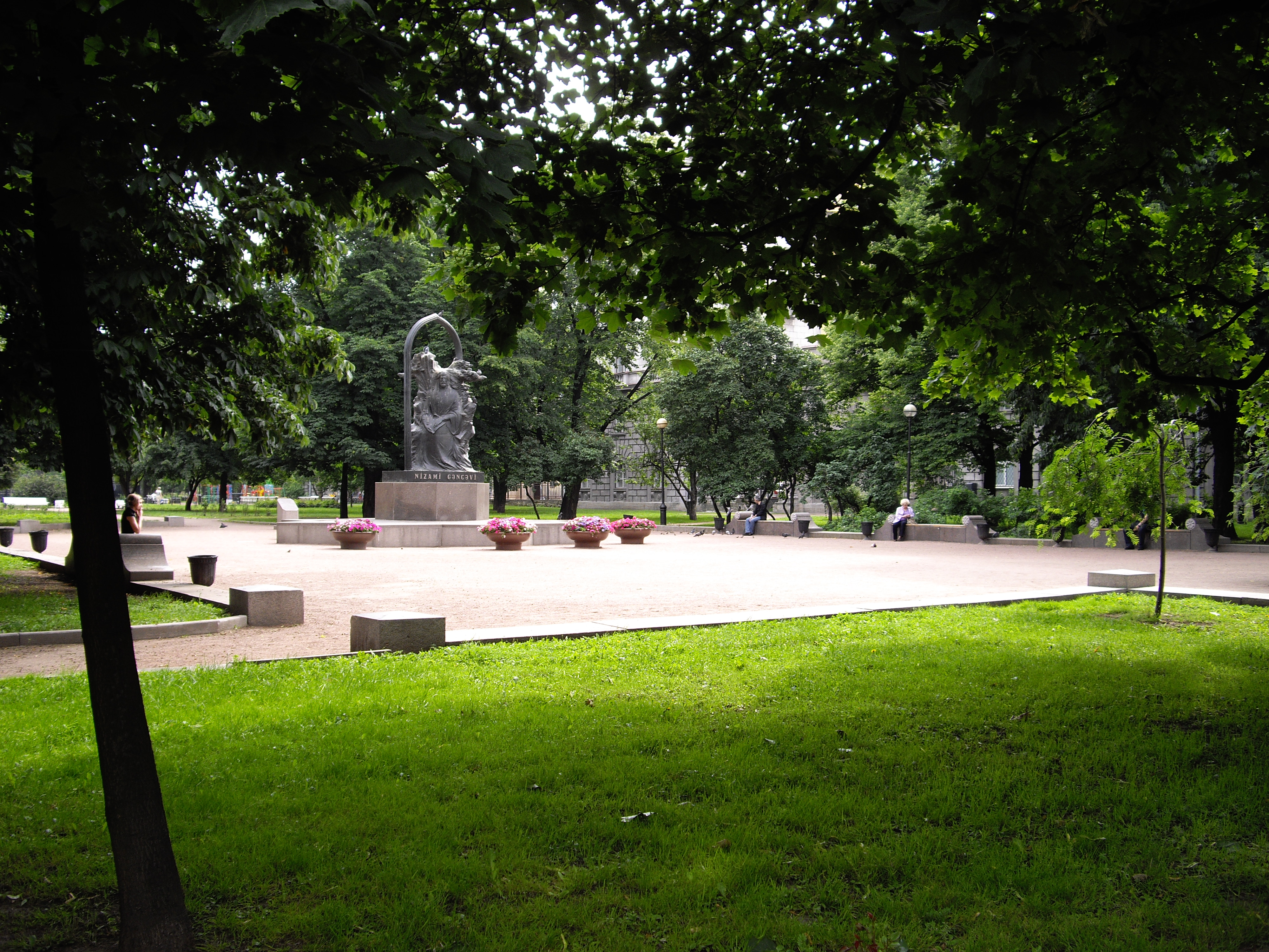 Nezami Garden in Kamennoostrovsky Prospekt in Saint Petersburg with a sculpture devoted to Nezami Ganjavi